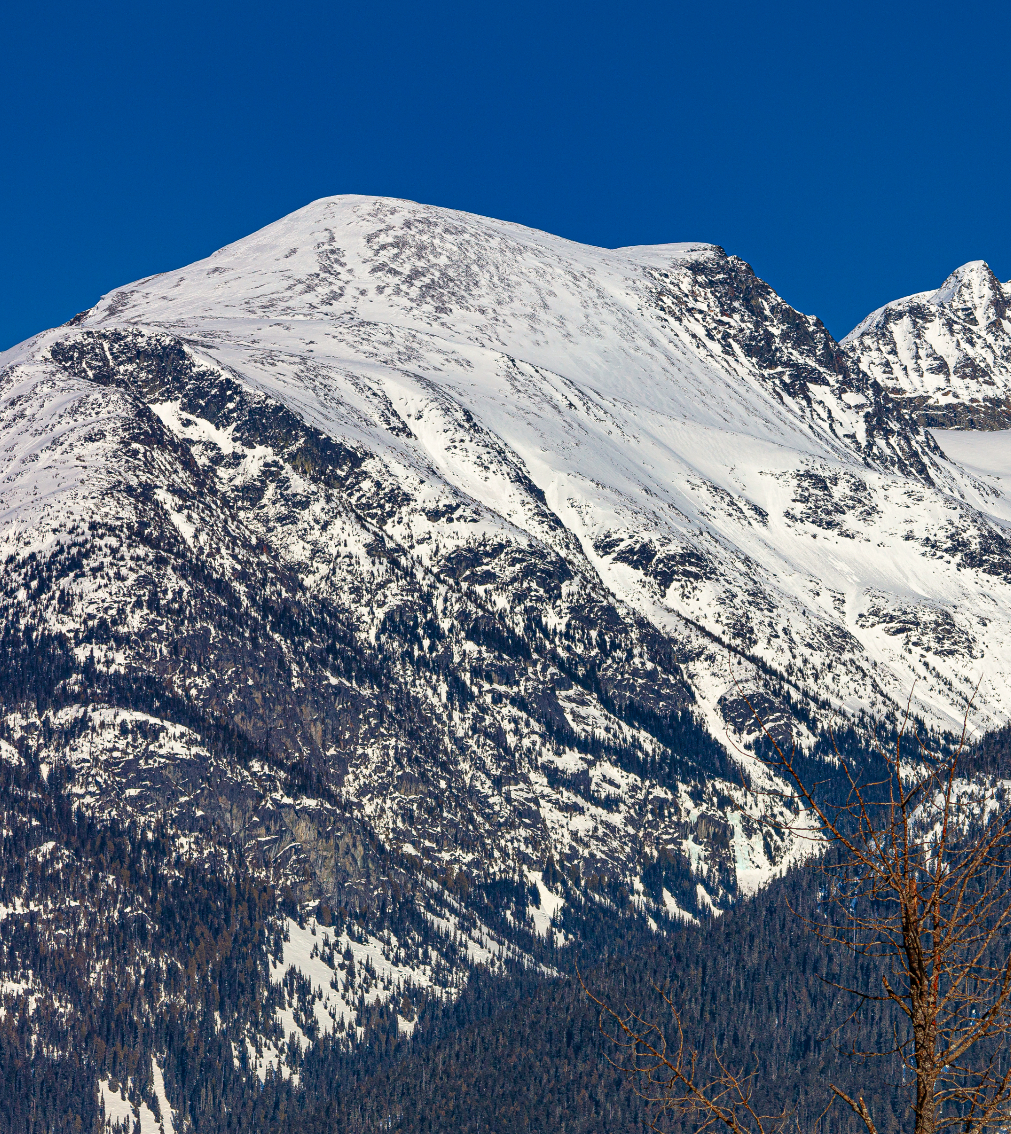 Mount Cook at Whistler, BC, last leg of the journey from Horseshoe Bay to Kamloops on Hwys 99 and finally 97...the peaks around Mt Weart (2835m)...